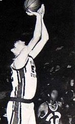 Palos Verdes High School senior Bill Laimbeer shooting a free-throw as a member of the 1974-75 Palos Verdes Sea Kings boys' varsity basketball team. Laimbeer would go on to play basketball at the University of Notre Dame and in the NBA, where he earned four All-Star appearances and won two championships during his 14 seasons in the league.